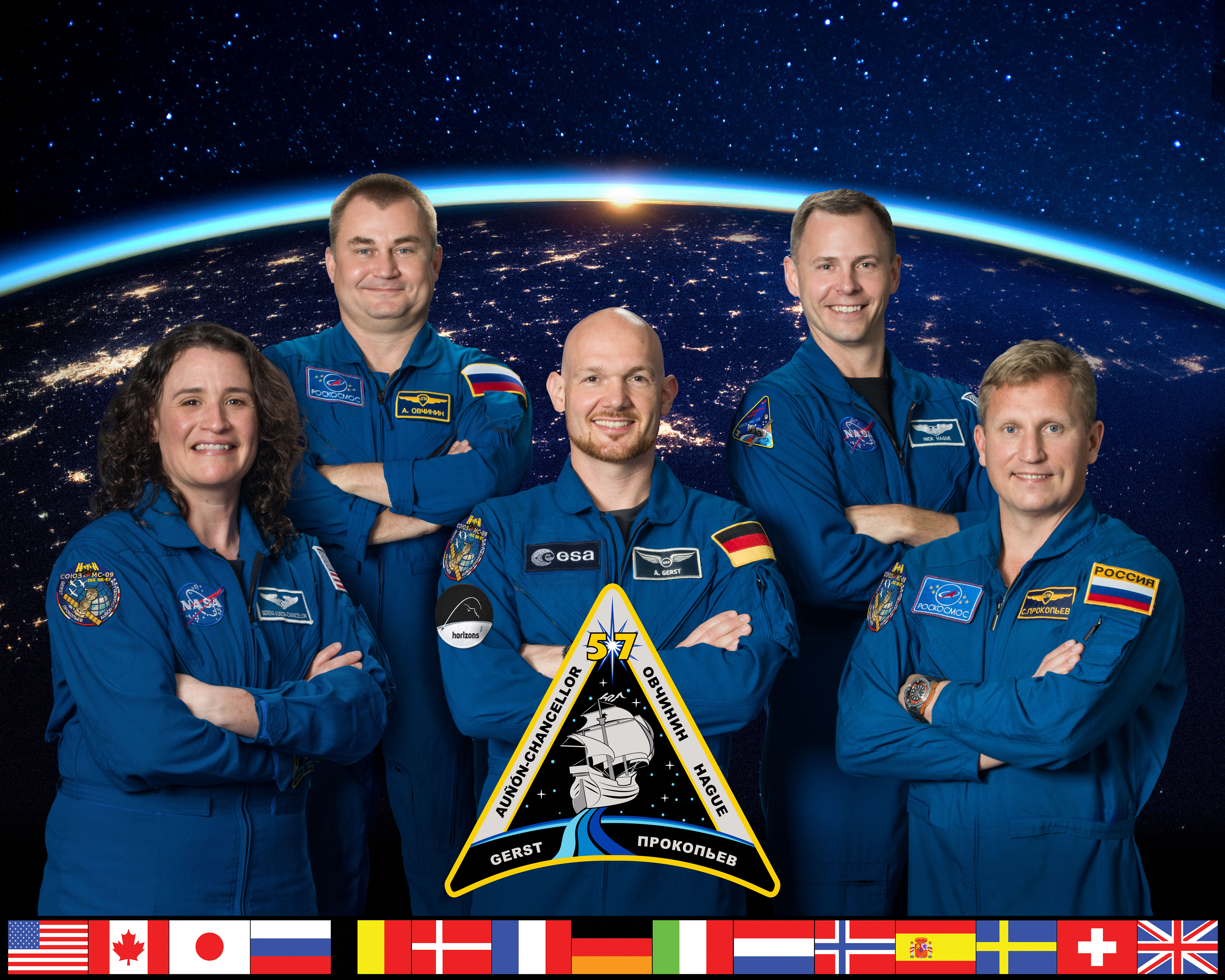 The official portrait of the five-member Expedition 57 crew. In the front row from left are Serena Auñón-Chancellor of NASA, Commander Alexander Gerst from the European Space Agency and Sergei Prokopev of Roscosmos. In the back row from left are Flight Engineers Aleksey Ovchinin of Roscosmos and Nick Hague from NASA.